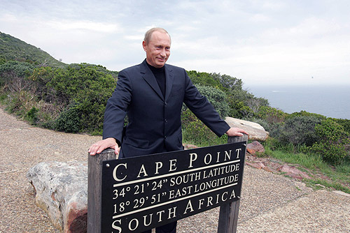 SOUTH AFRICA. Visiting the Cape of Good Hope.